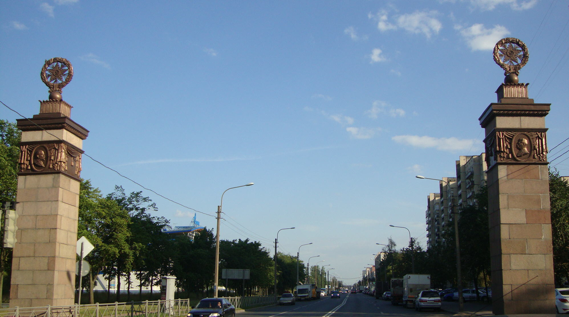 Triumph pylons both